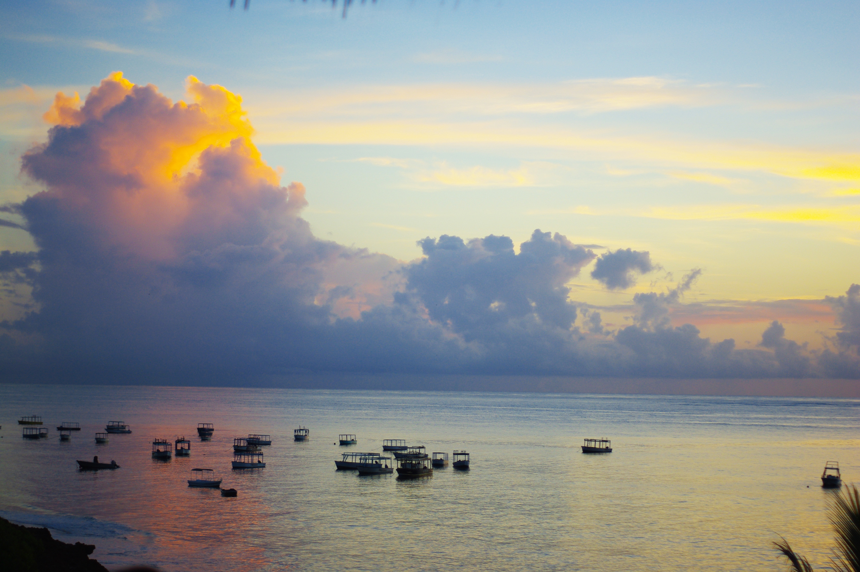 Boats in Malindi, a coastal town in Kenya